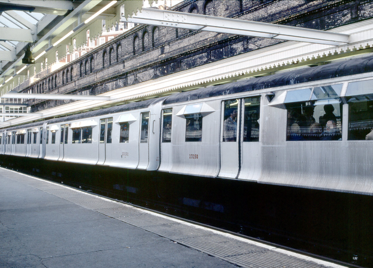 A train composed of a mixture of unpainted aluminium and (white) painted steel cars on the District Line. The twin windows in the central saloon between the double doors suggests that these three cars seen here are of post war construction. Although the file name quotes South Kensington station it is in fact Gloucester Road, before the station was rebuilt with a supermarket above the platforms. Photographed by SP Smiler